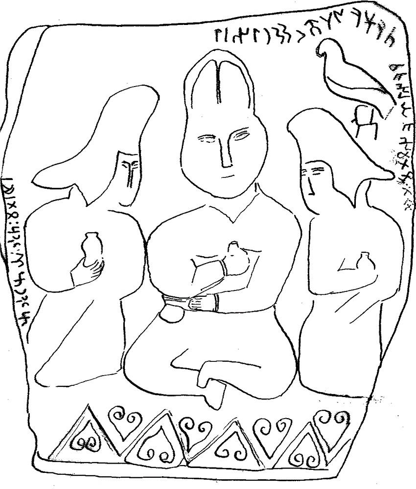 Altyn Tamgan inscription, 723 AD Historical definition The seal holder of Turkic kagan might be called “Altyn tamgan tarhan”. Names “The Ih Asgat monument”, “The Hol Asgat monument”, “The Altyn tamgan tarhan monument” Location The complex was found in northeast of Tulee mountain in Mogod sum of Bulgan aimag of Mongolia at N46º54´ - E104º33´.